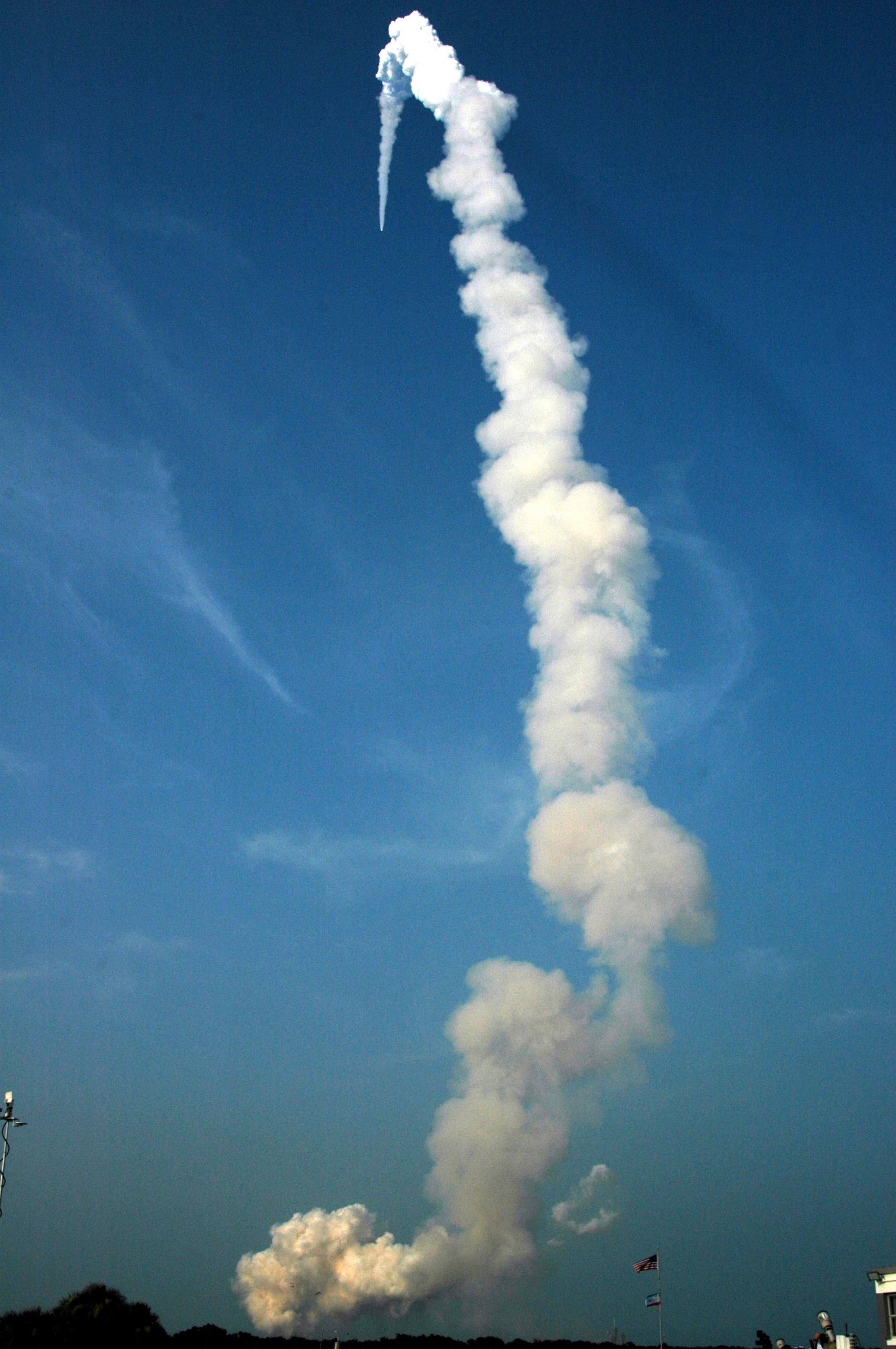 The trail of smoke from Space Shuttle Endeavour curves as the shuttle hurtles into space on mission STS-118. Liftoff from Launch Pad 39A was on time at 6:36 p.m. EDT.